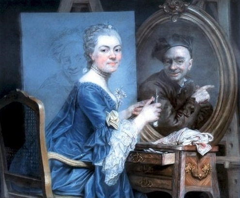 Selfportrait with an image of Maurice Quentin de La Tour